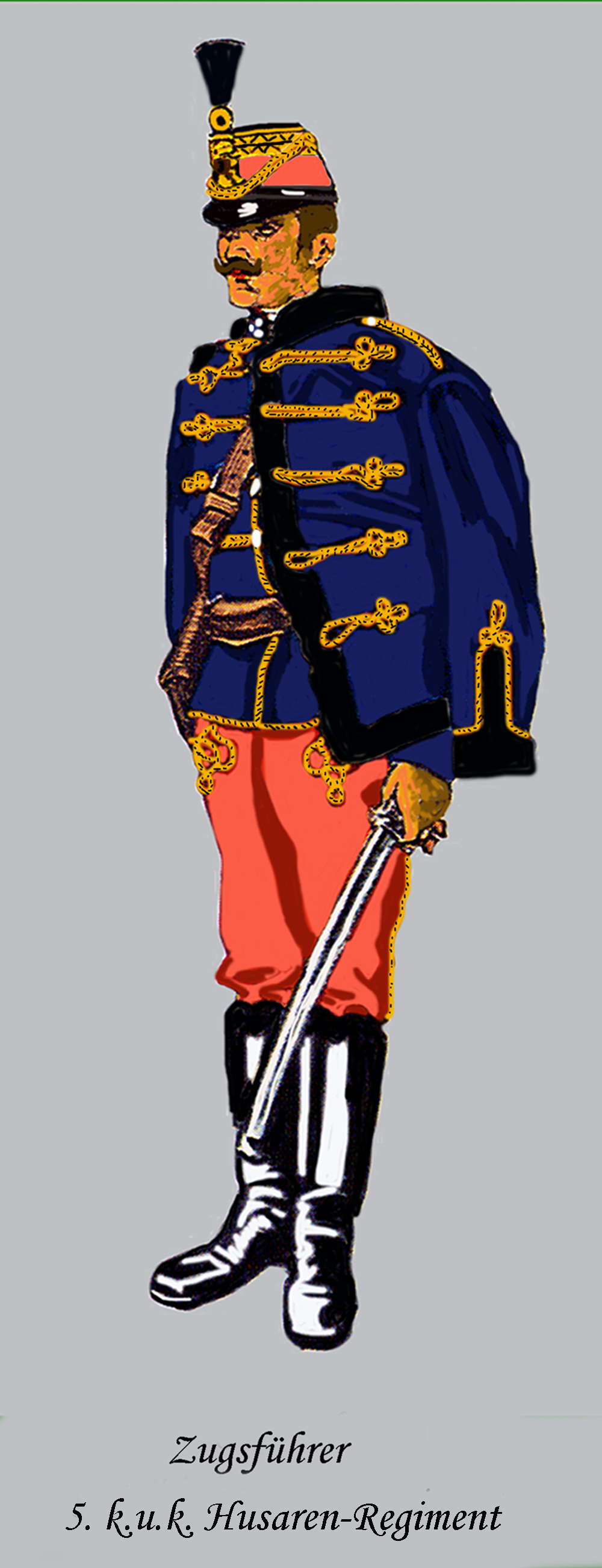 Sergeant of the 8th Austria-Hungarian Hussars-Regiment with Fur coat. Uniformstyle in use until about 1916